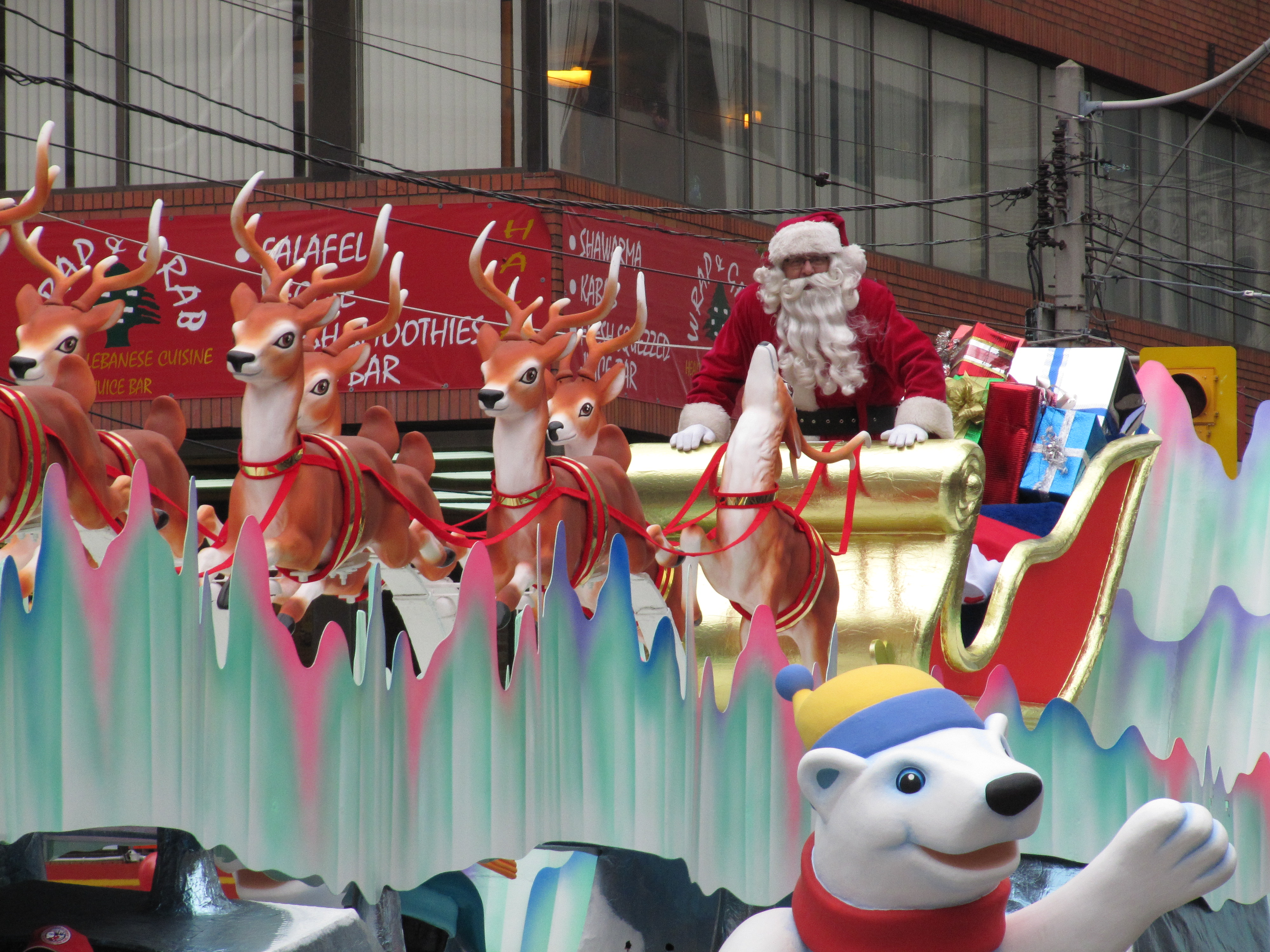 The big man himself brings up the rear at the 2009 Santa Claus Parade, Toronto.